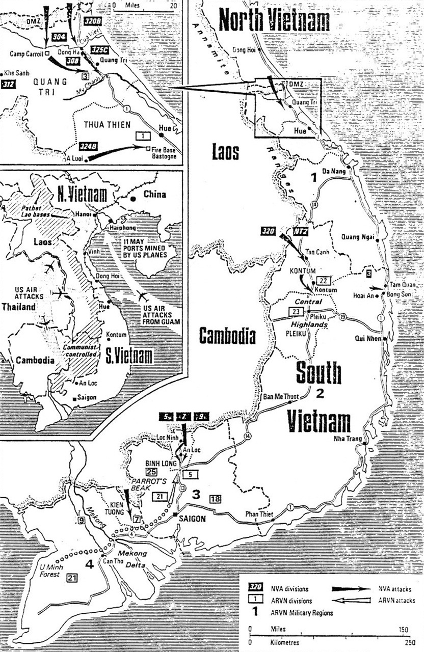 Map of the North Vietnamese Army General Offensive of 1972